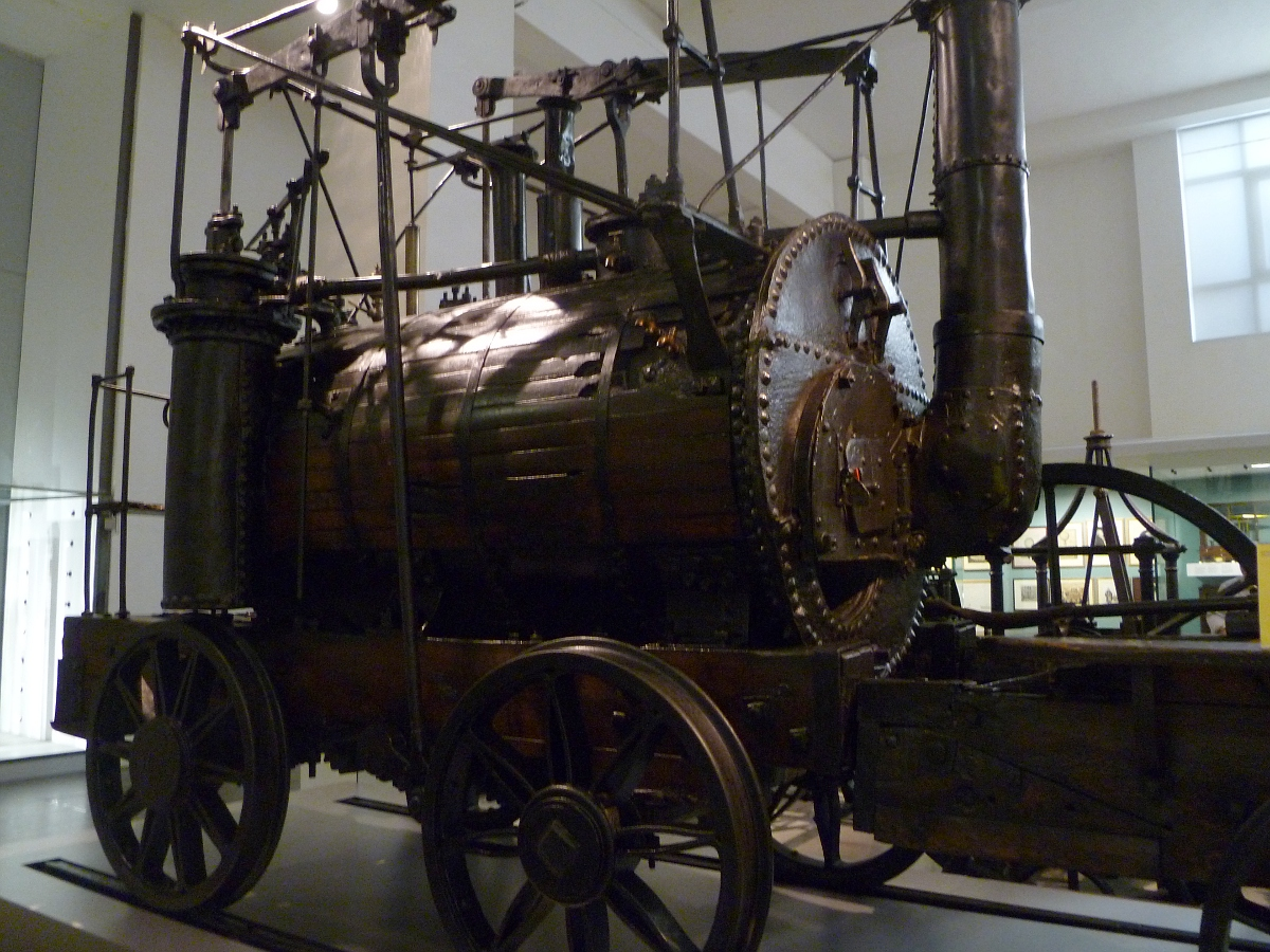 Side view of "Puffing Billy", the oldest surviving steam locomotive in the UK. Taken at the Science Museum, South Kensington, London, UK.